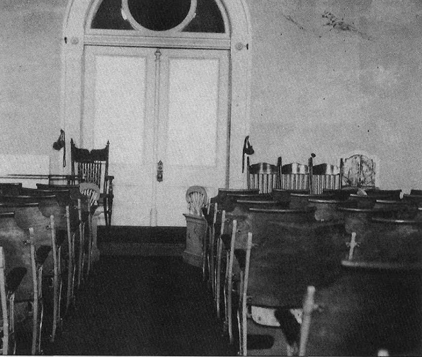 Gisbert Bossard's unauthorized 1911 photograph of the first room in the endowment ceremony, the creation room (also called the lecture room). At the time the walls did not have murals as they do now.